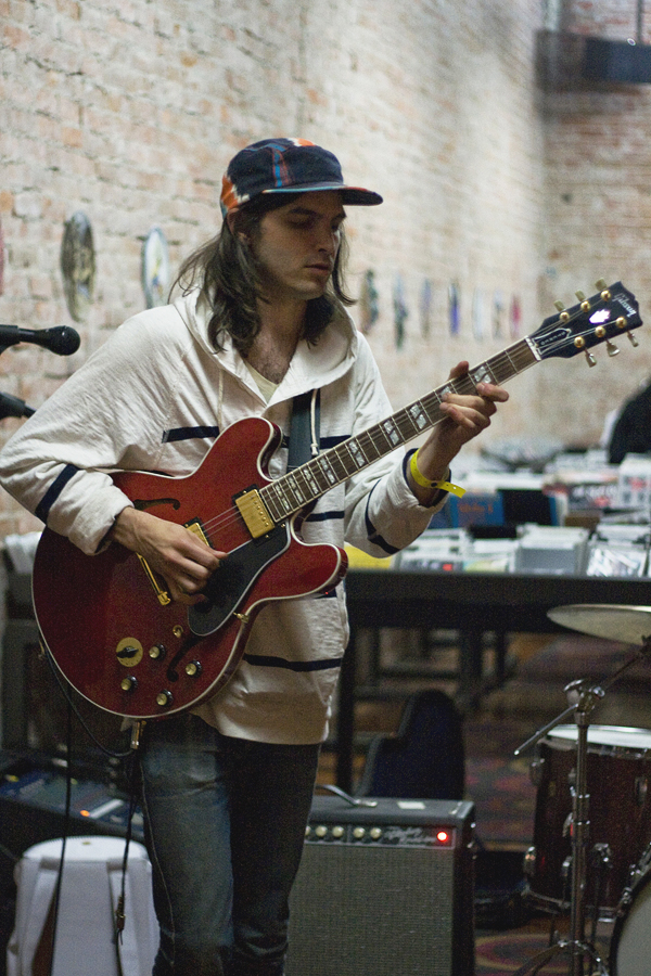 Alex Greenwald during performances with The Like and Michael Runion at Glasshouse Records and Aladdin's Jr. on May 8, 2010